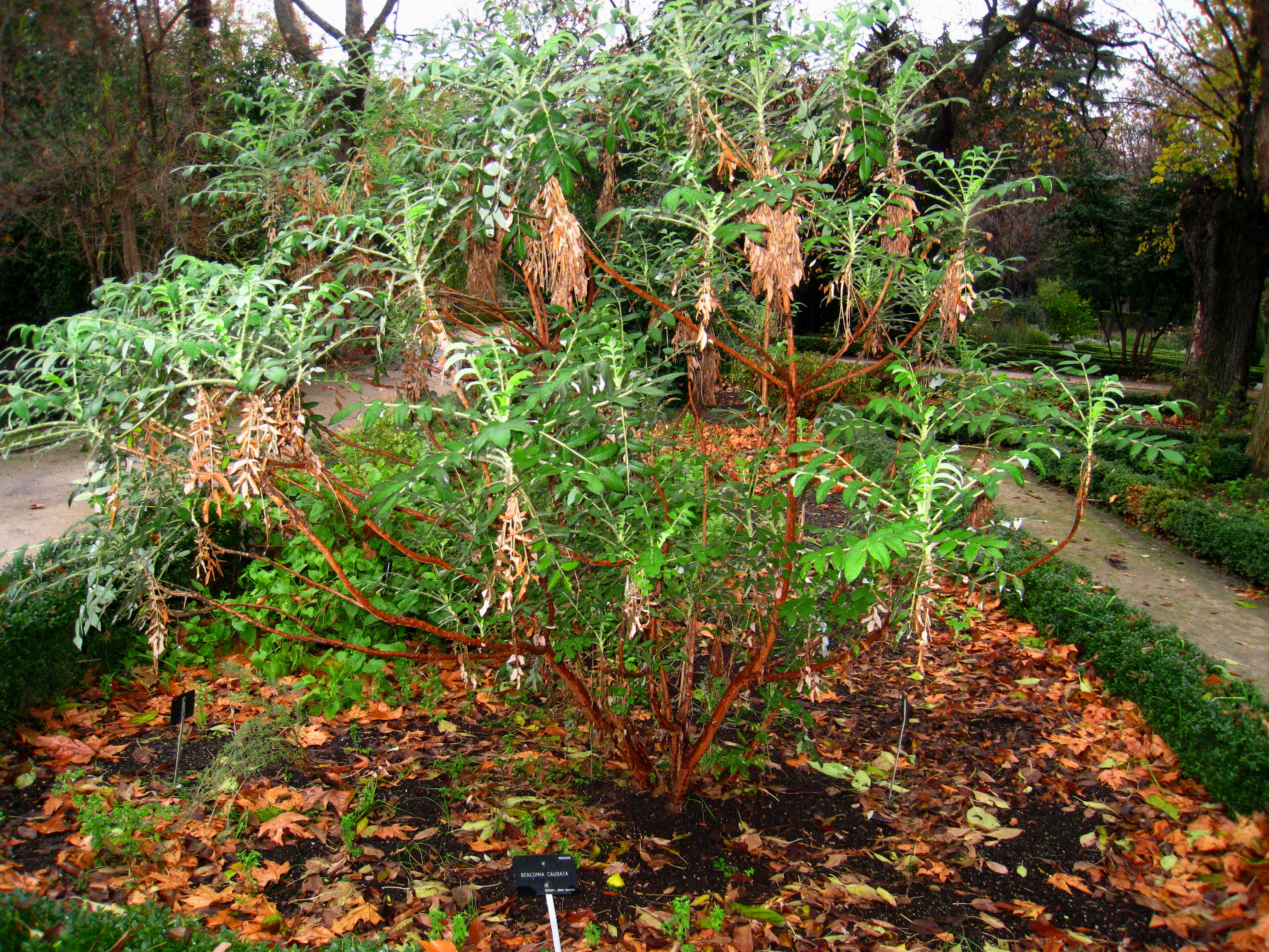 Bencomia caudata - Royal Botanical Garden, Madrid, Spain. I took this photograph.